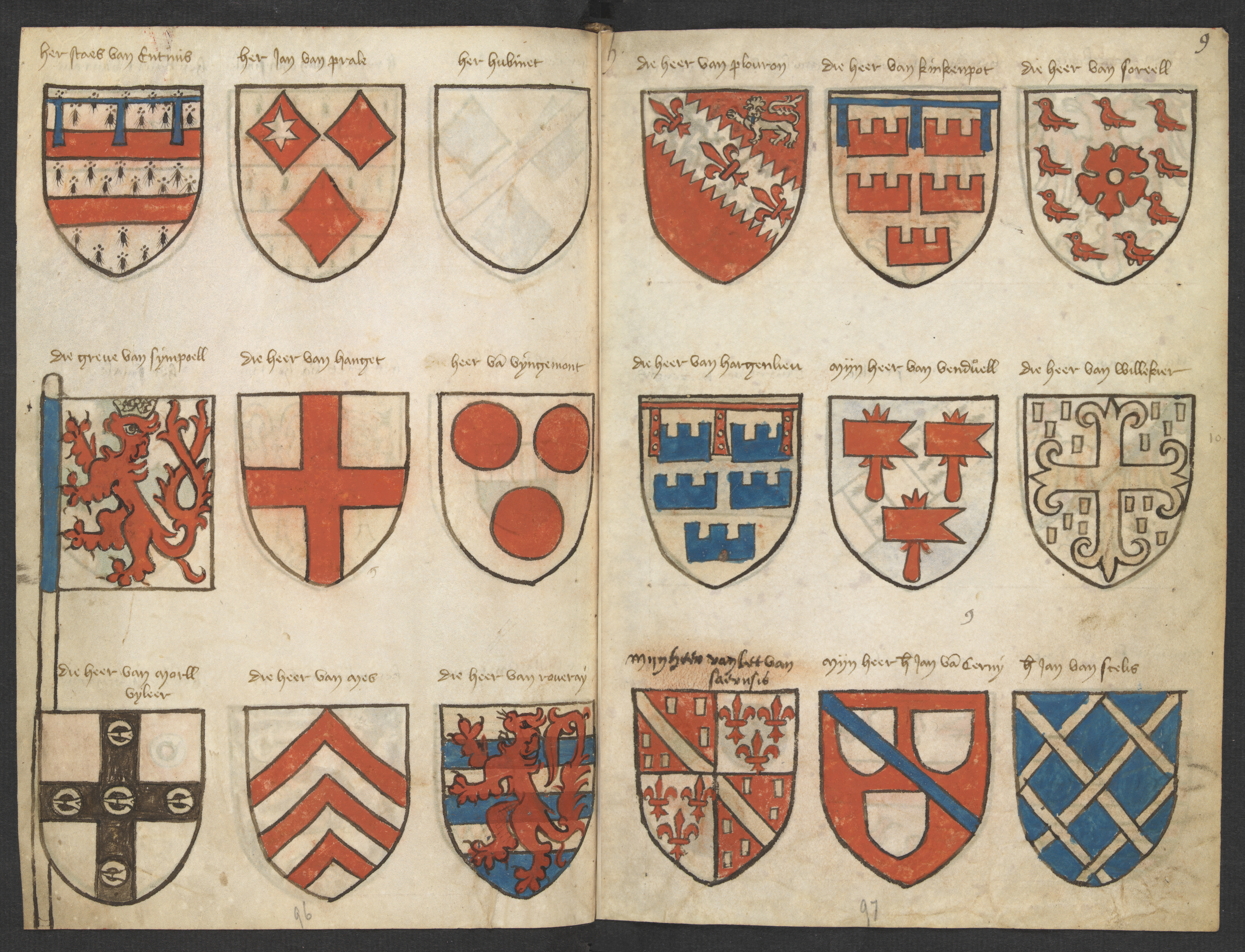 Lefthand side folio 048v; righthand side folio 009r from the Beyeren armorial / Wapenboek Beyeren